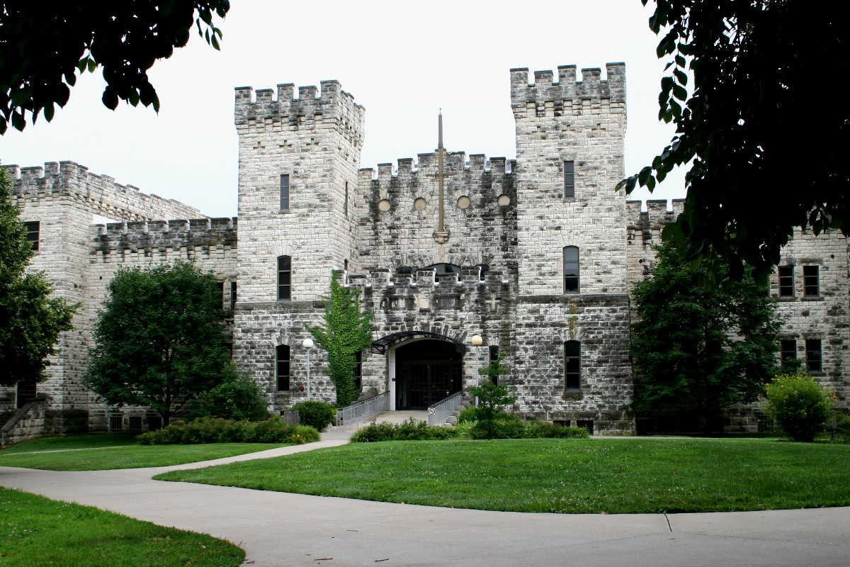 The campus-side of Nichols Hall, Kansas State University.